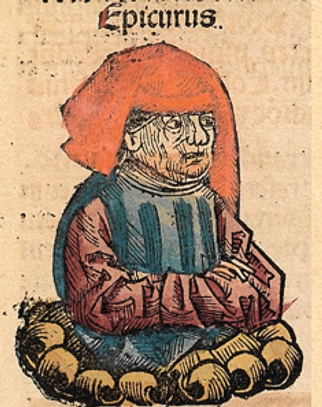 Ancient Greek philosopher Epicurus, depicted in the Nuremberg Chronicle